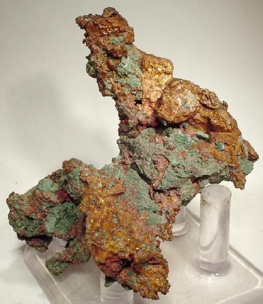 Copper Locality: Minesota Mine, Rockland, Ontonagon County, Michigan, USA (Locality at ) A RARE, VERY LARGE copper cube, 1.6 x 1.6 cm, with a nice patina and with copper and matrix from the famous Minesota Mine of Michigan. The large crystal could be opened up and exposed with a little bit of work. 6.8 x 6.0 x 4.8 cm